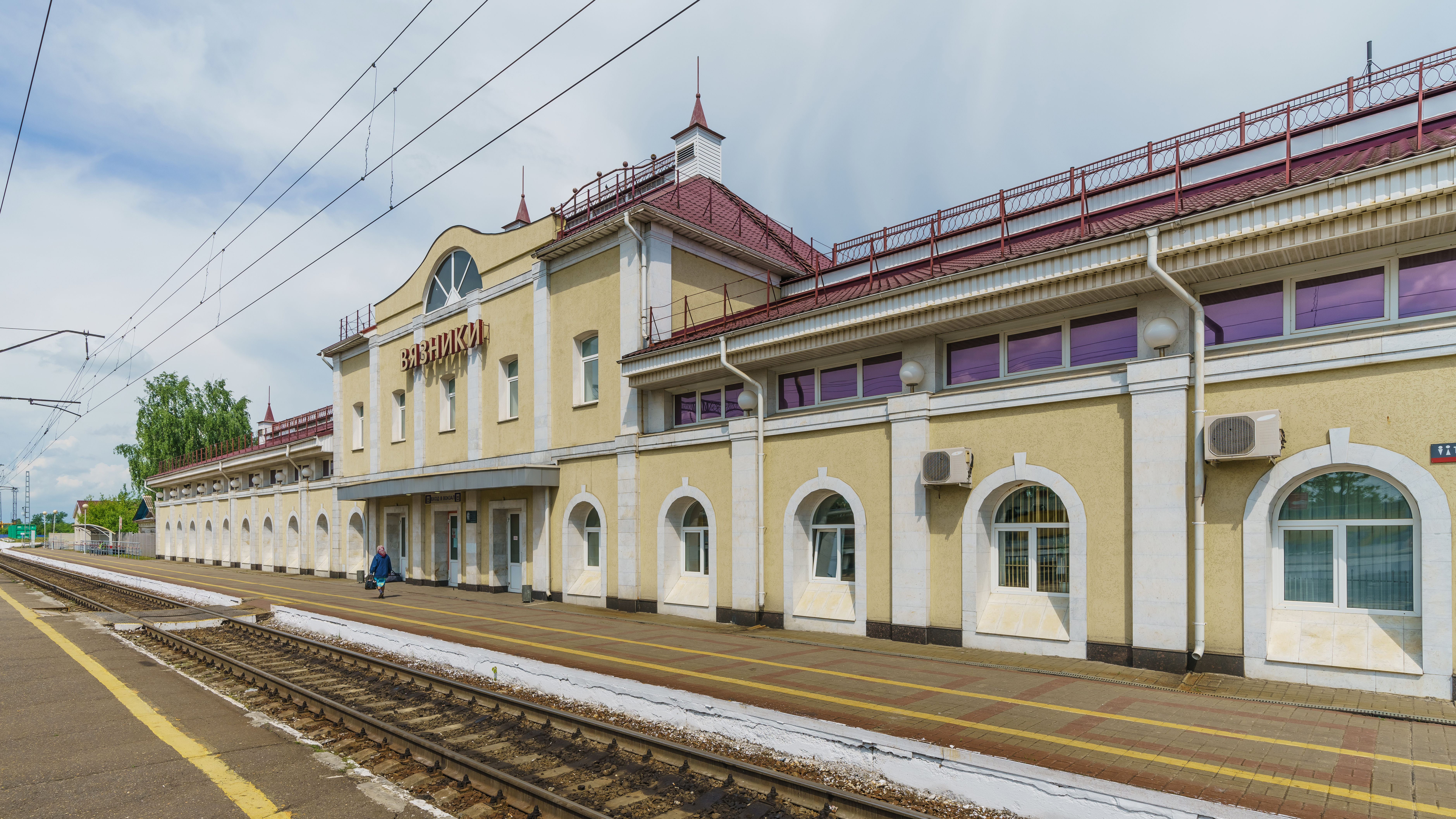 Railway station in Vyazniki, Vladimir Oblast, Russia